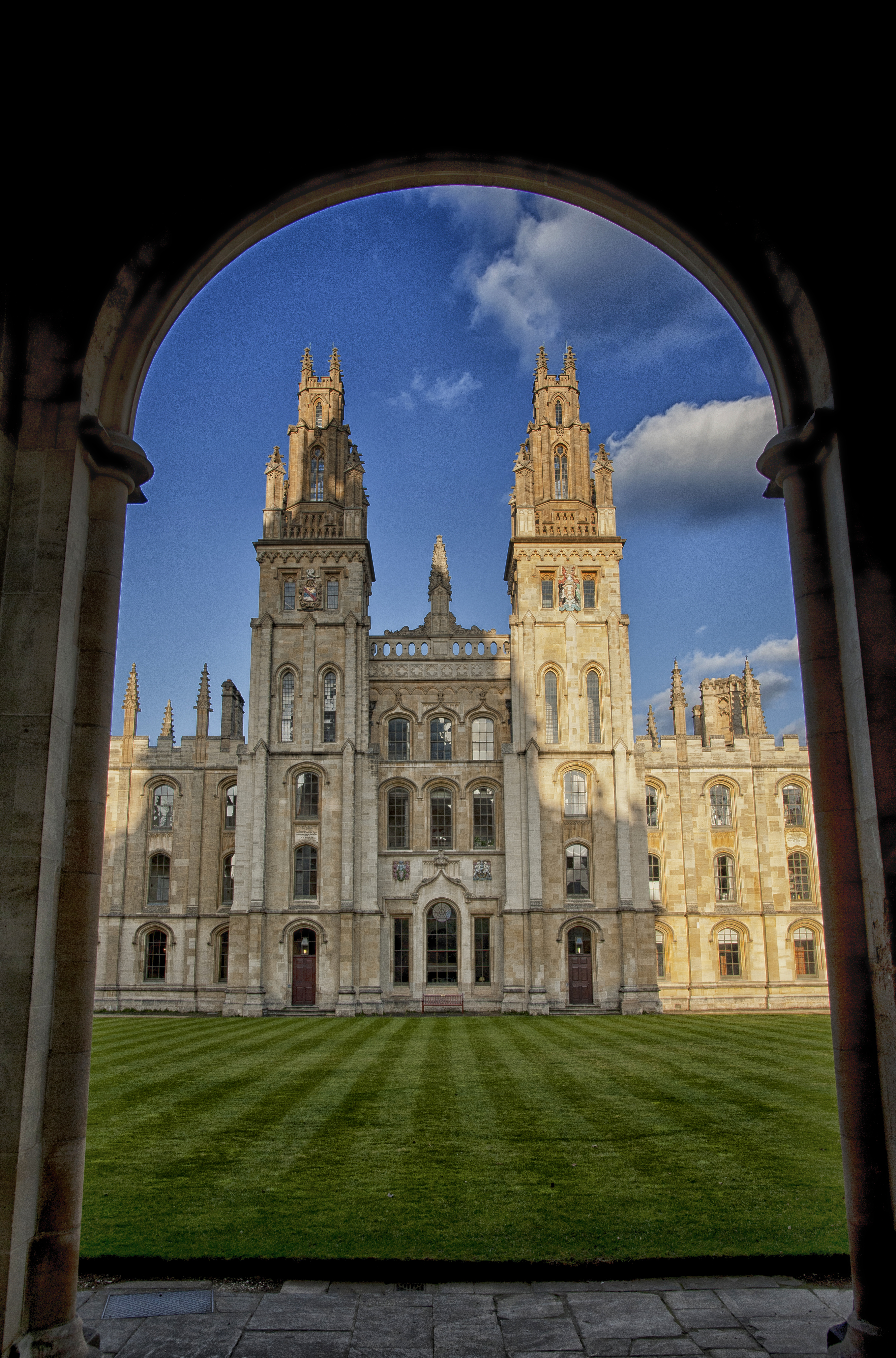 all souls college oxford university 2012